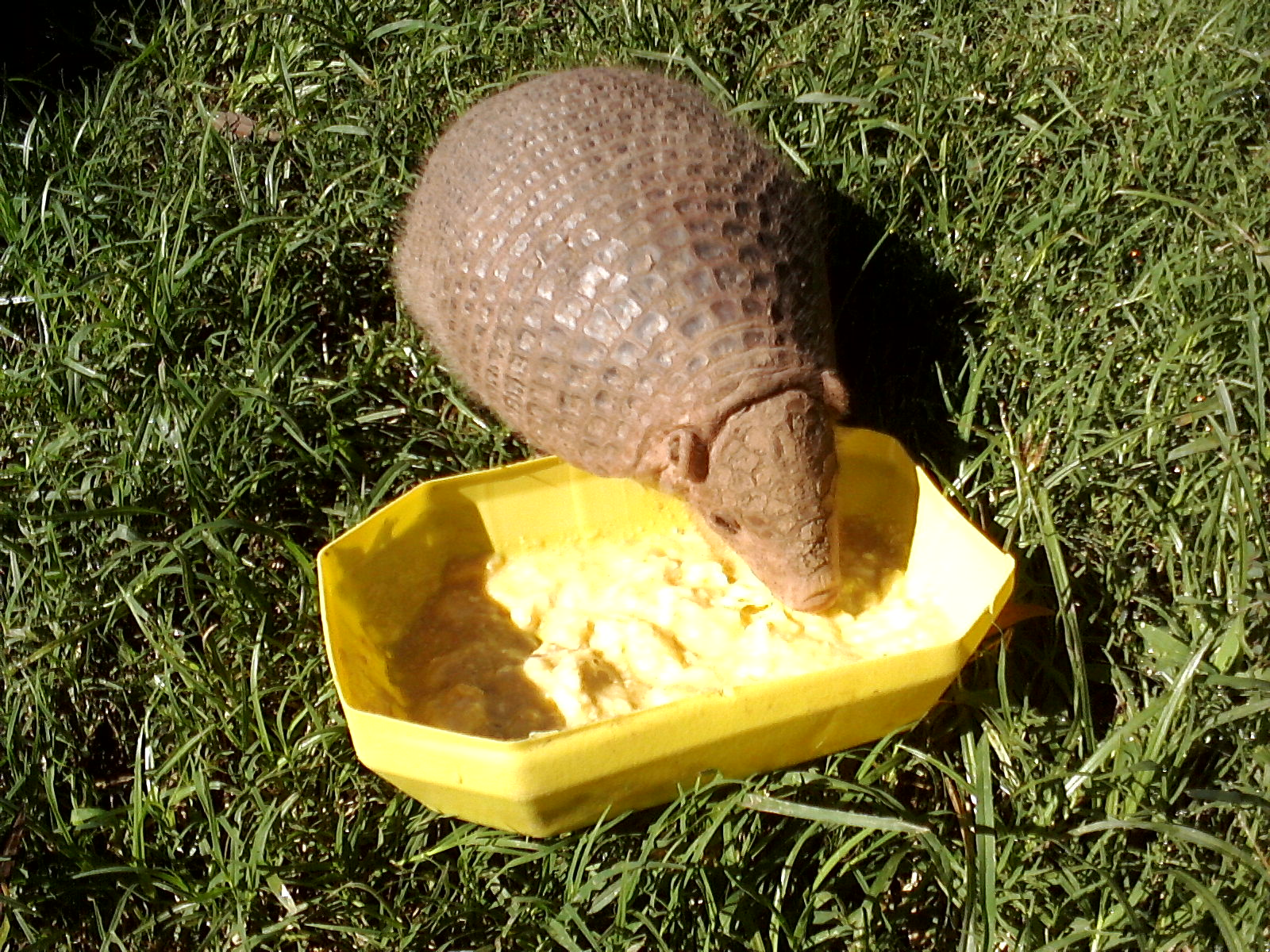 Cabassous chacoensis